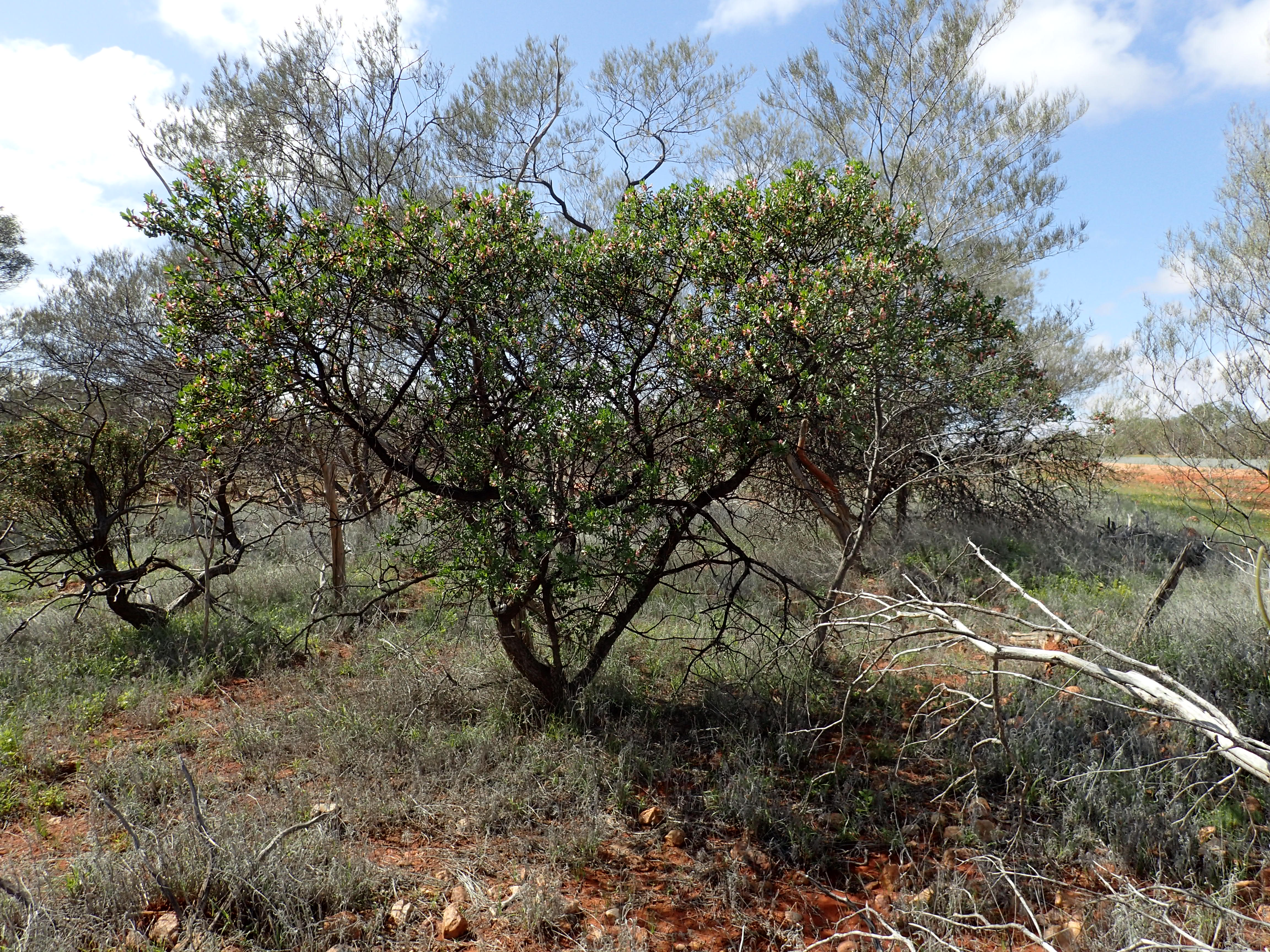 Eremophila fraseri fraseri growing near the "Mooka" turnoff on the Carnarvon-Mullewa Road